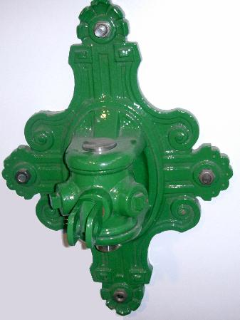 Mauerrosette - Tramway Graz